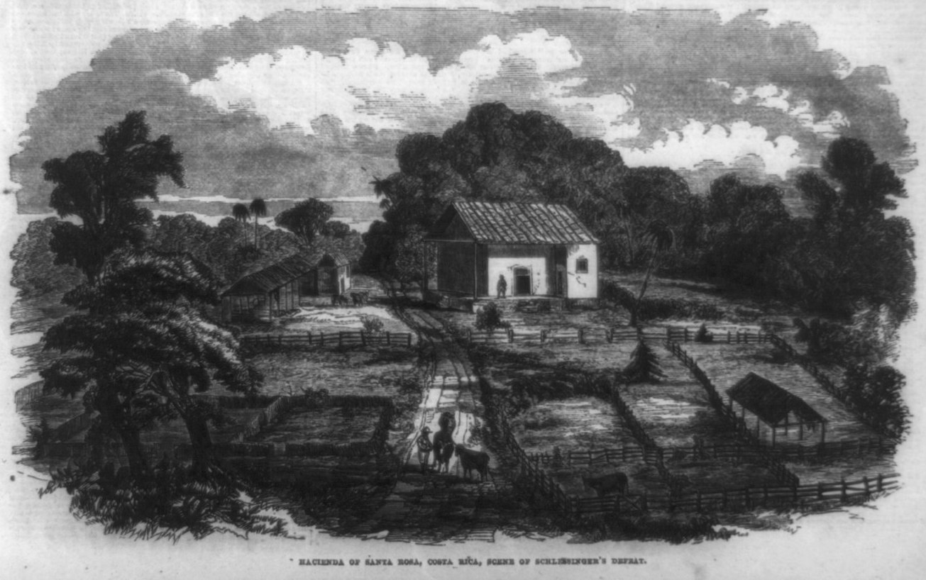 Title: Gen. Wm. Walker's Exp. in Nicaragua]: Hacienda of Santa Rosa, Costa Rica, scene of Schlessinger's defeat [Mar. 19 Abstract/medium: 1 print : wood engraving.